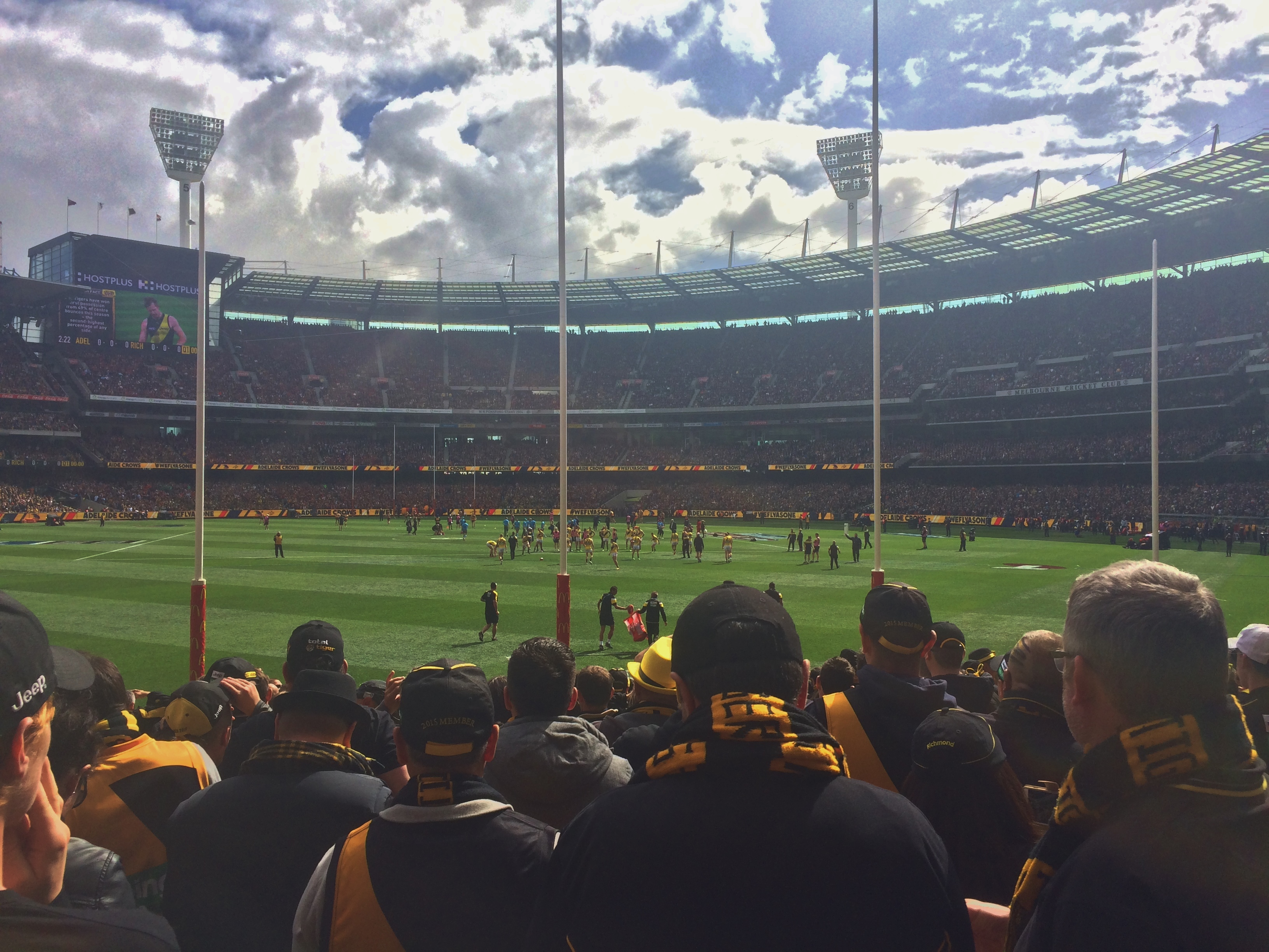 The Melbourne Cricket Ground as seen from the Punt Road End goals in the Great Southern Stand prior to the 2017 AFL Grand Final.